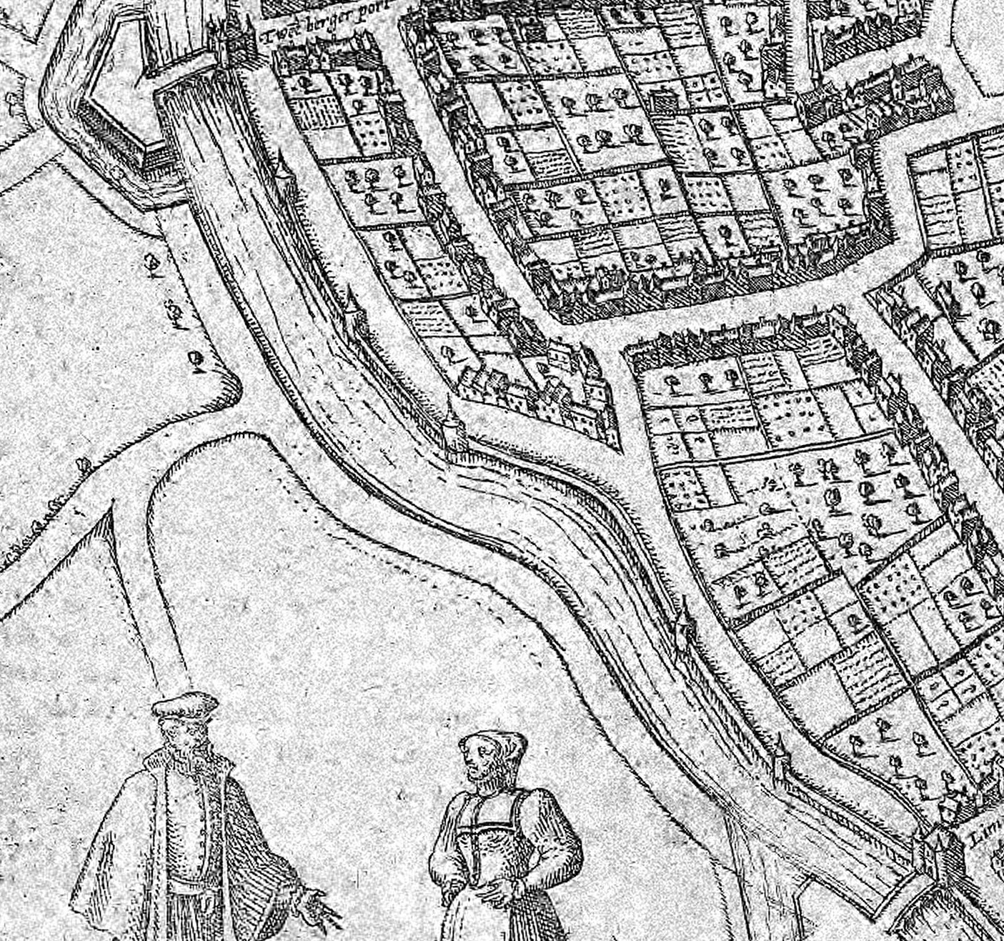 Maastricht, the Netherlands. Detail of a map of Maastricht from the atlas Civitates Orbis Terrarum (Braun & Hogenberg, 1575). Here the southwestern city wall between the city gates Brusselsepoort (top left) and Tongersepoort (bottom right).